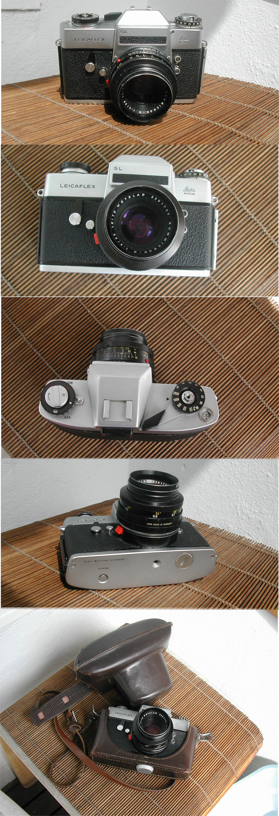 Leicaflex SL, silver chrome finish